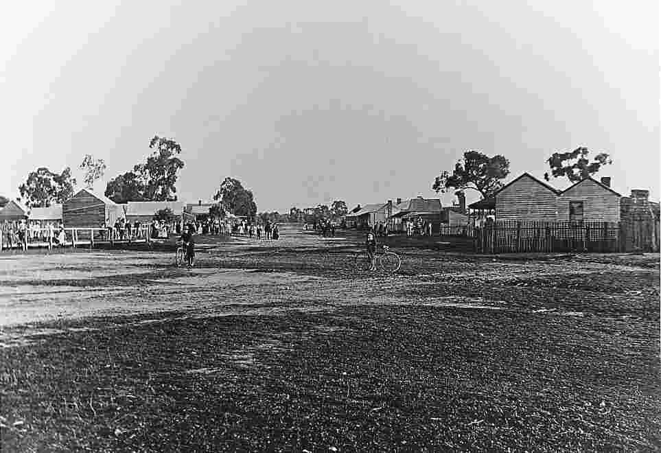 Homebush, Victoria, Main Street